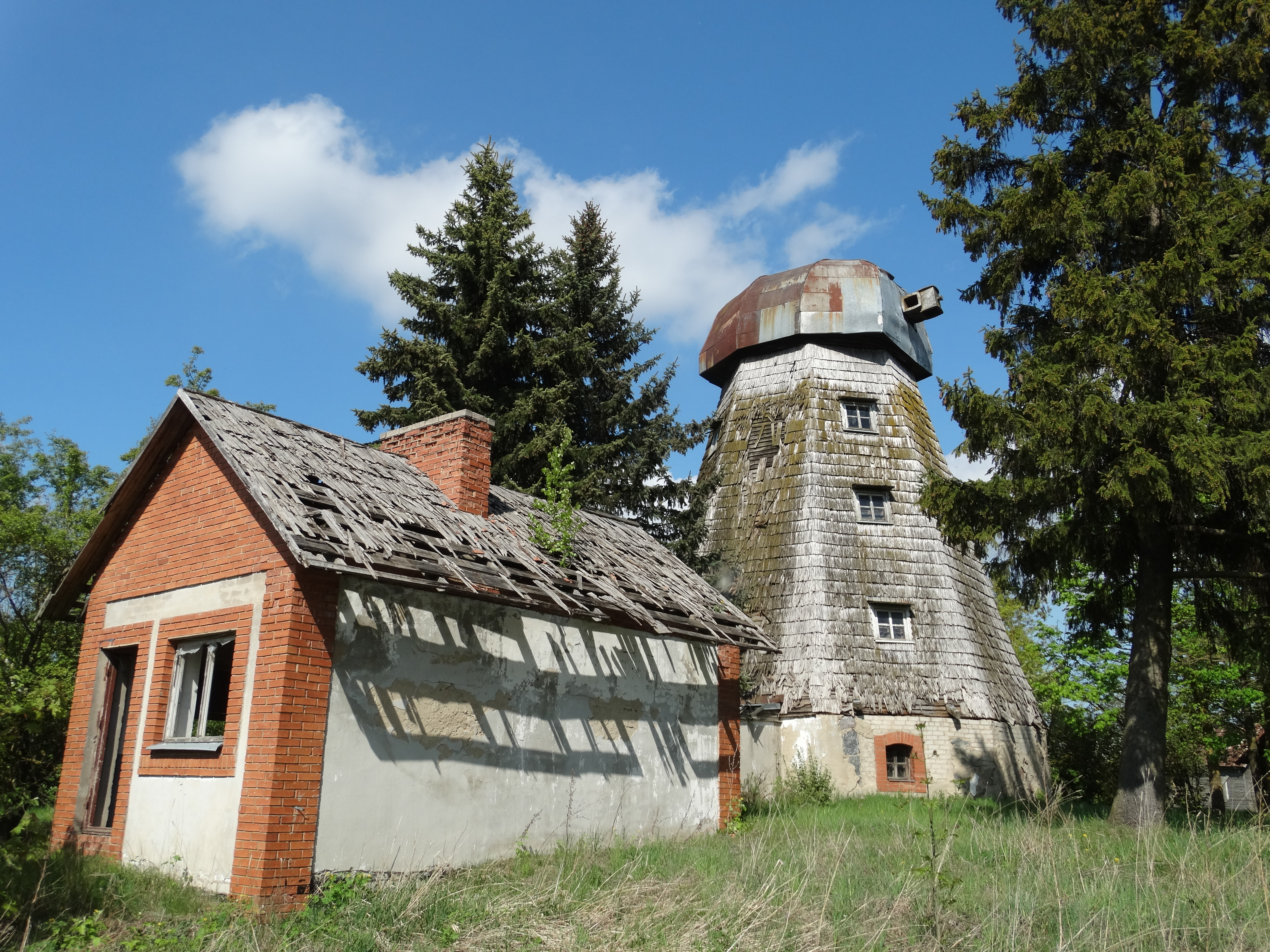 Windmill, Ūdekai, Pakruojis district, Lithuania